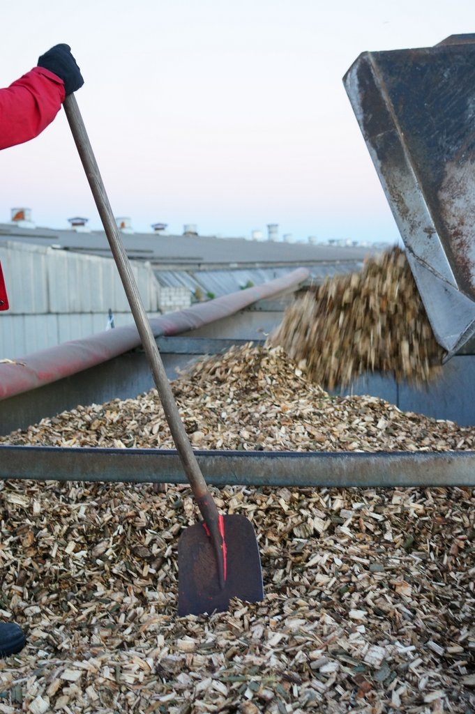 Loading a truck with wood-chips from short rotation coppice plantations